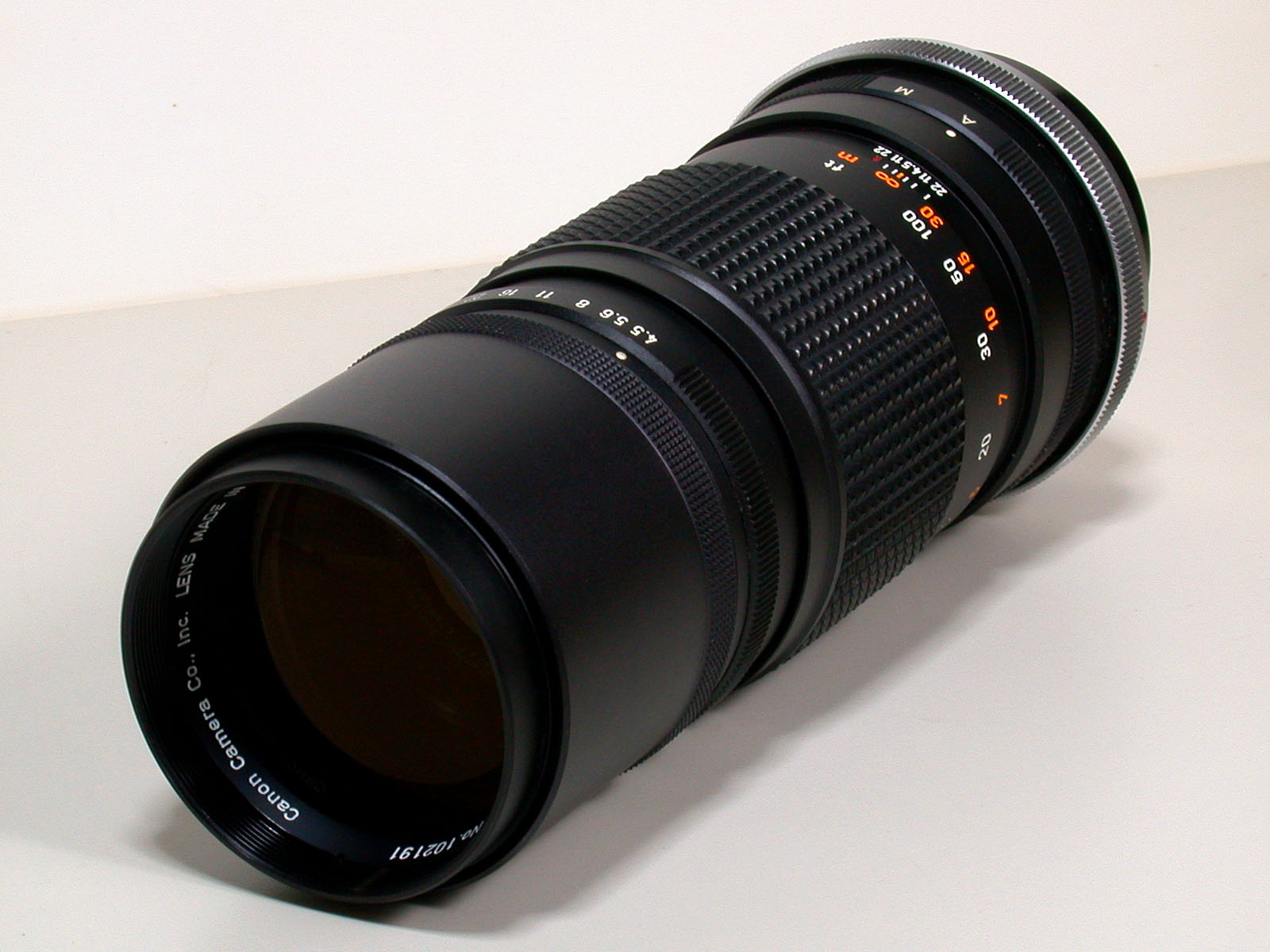 Canon lens FL 200mmF4.5